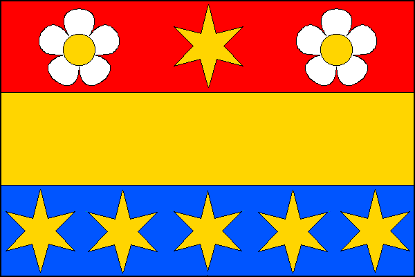 Municipal flag of Královice village, Kladno District, Czech Republic.